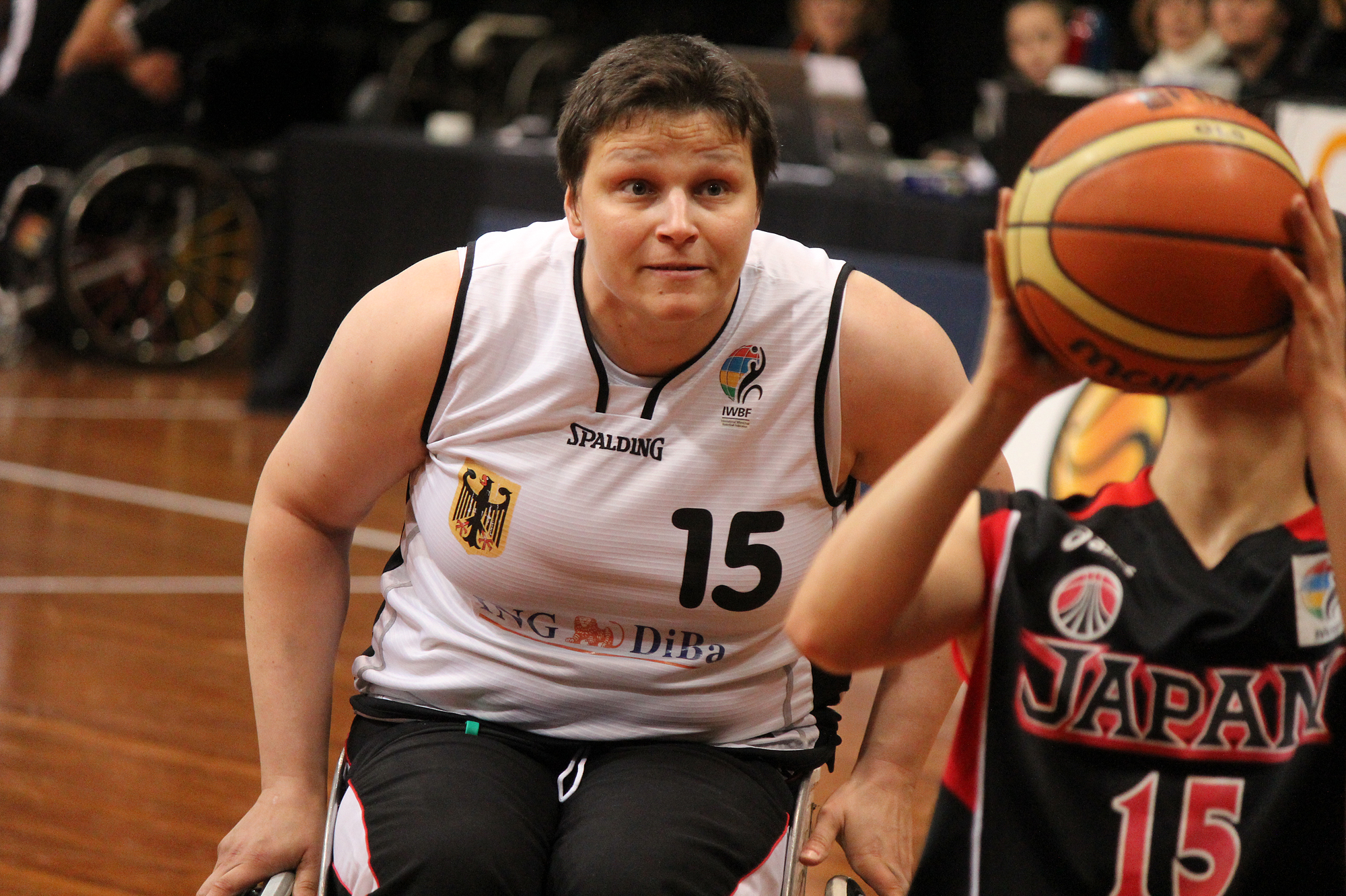 Germany vs Japan women's wheelchair basketball team at the Sports Centre.